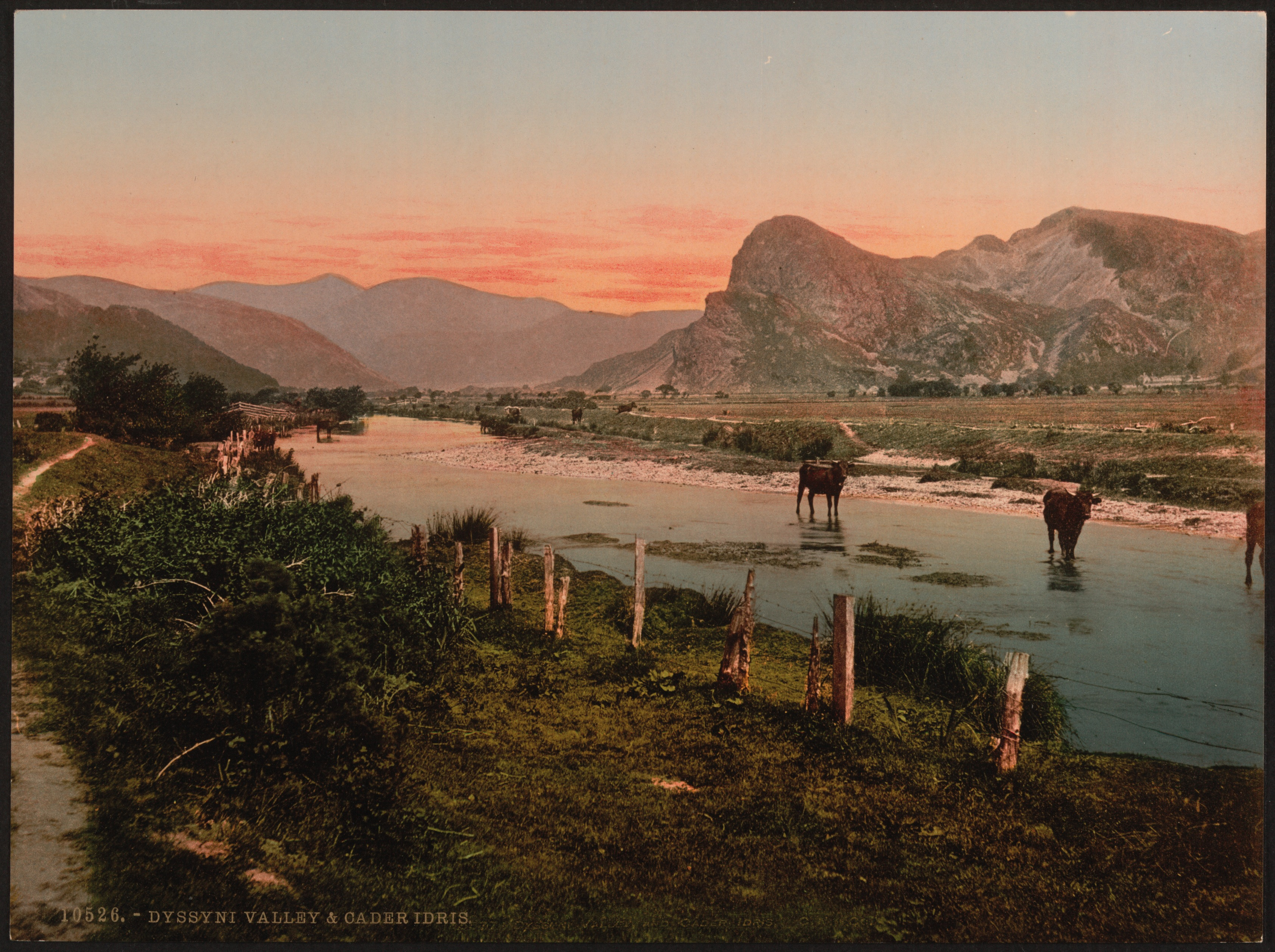 Title from the Detroit Publishing Co., catalogue J-foreign section. Detroit, Mich. : Detroit Photographic Company, 1905.; More information about the Photochrom Print Collection is available at Forms part of: Views of landscape and architecture in Wales in the Photochrom print collection.; Print no. "10526".